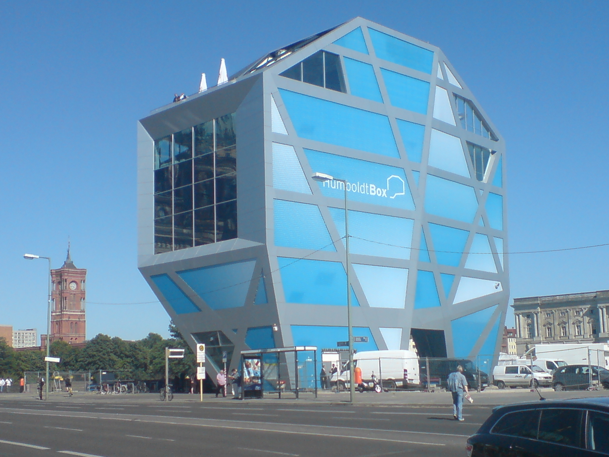 Humboldt Box in Berlin-Mitte.